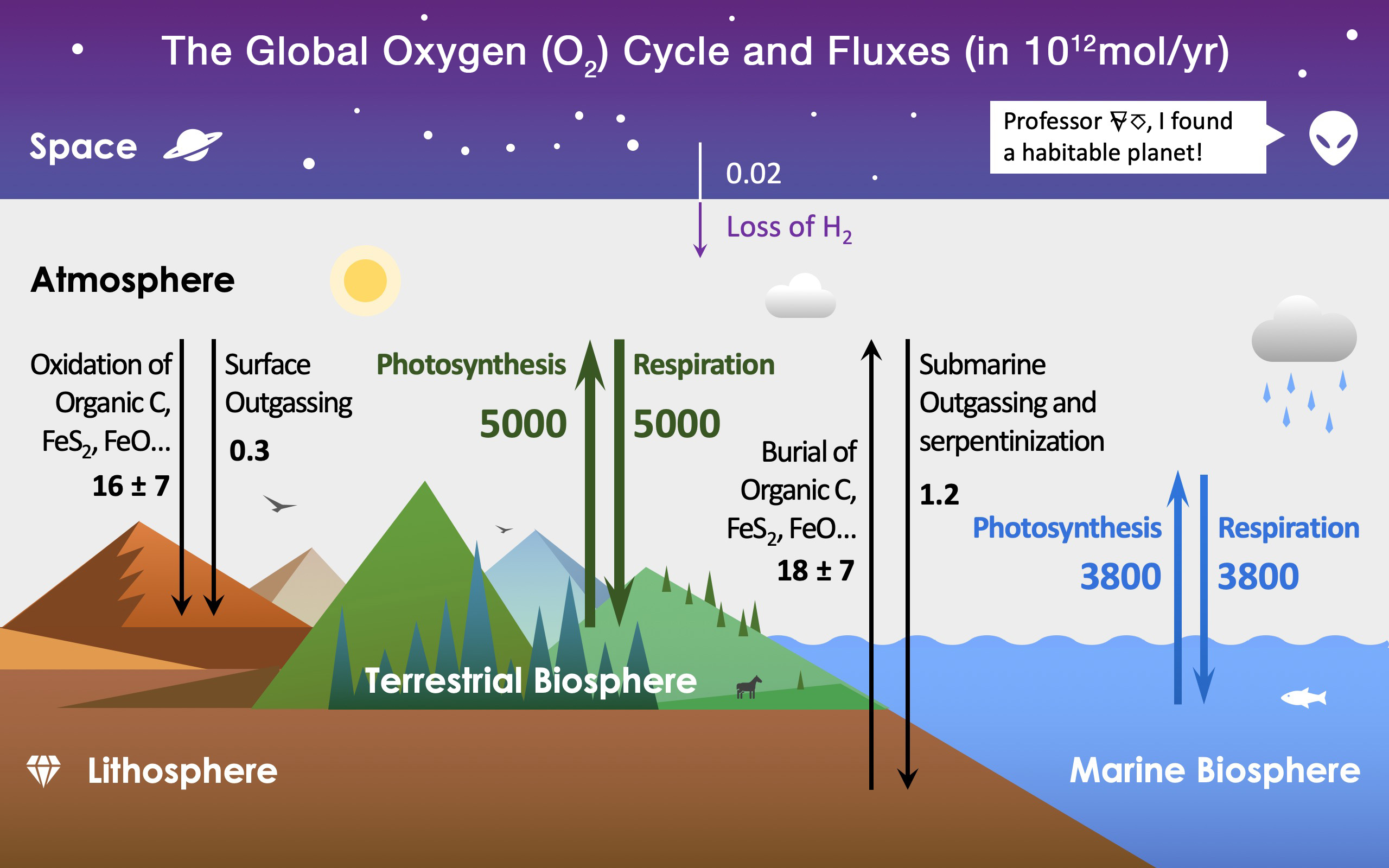 This figure depicts the main reservoirs and fluxes of global oxygen cycle. The unit for all the numbers is Trillion mol per year.